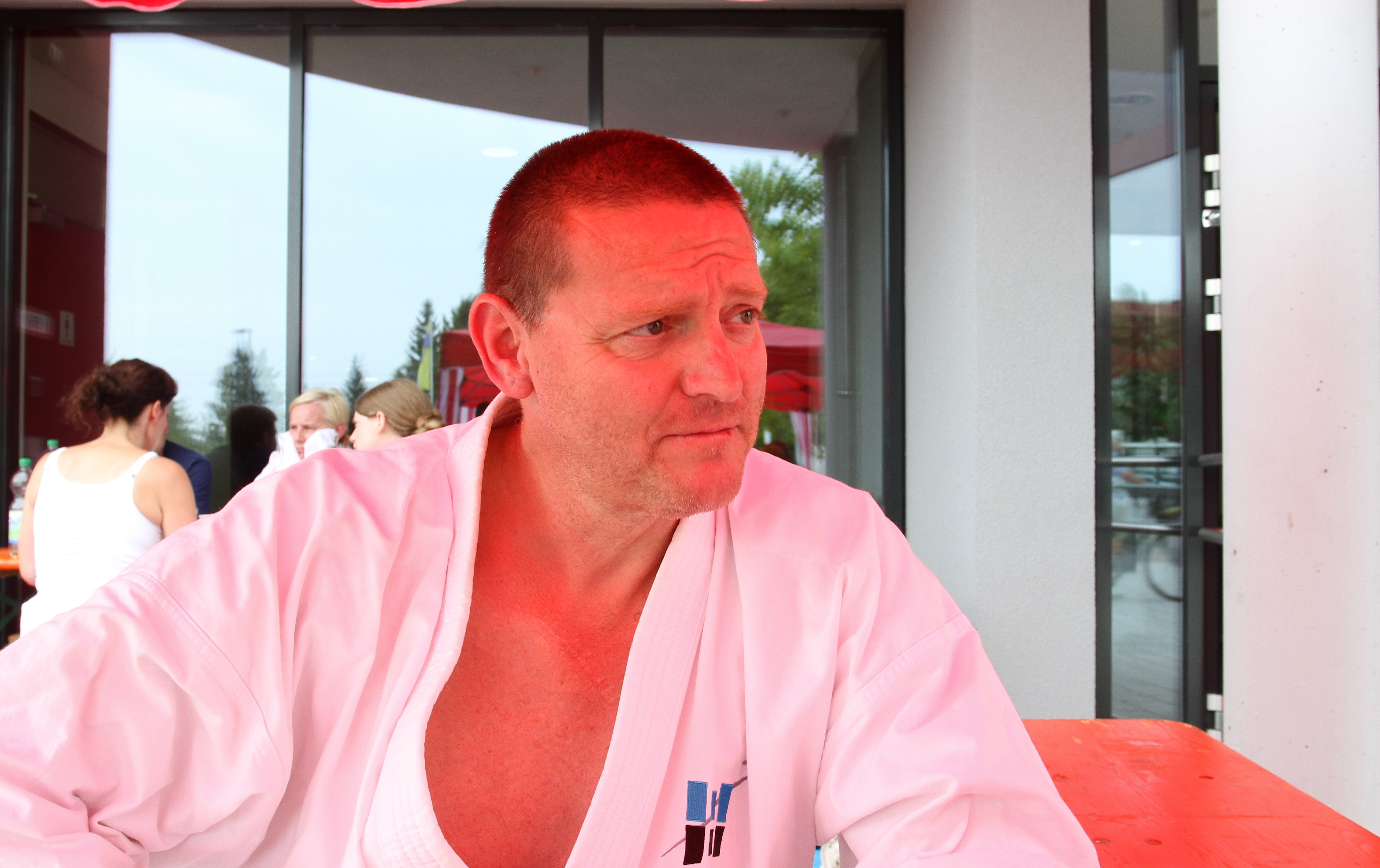 WKA-Karate World Champion, Hans-Peter Wiegert